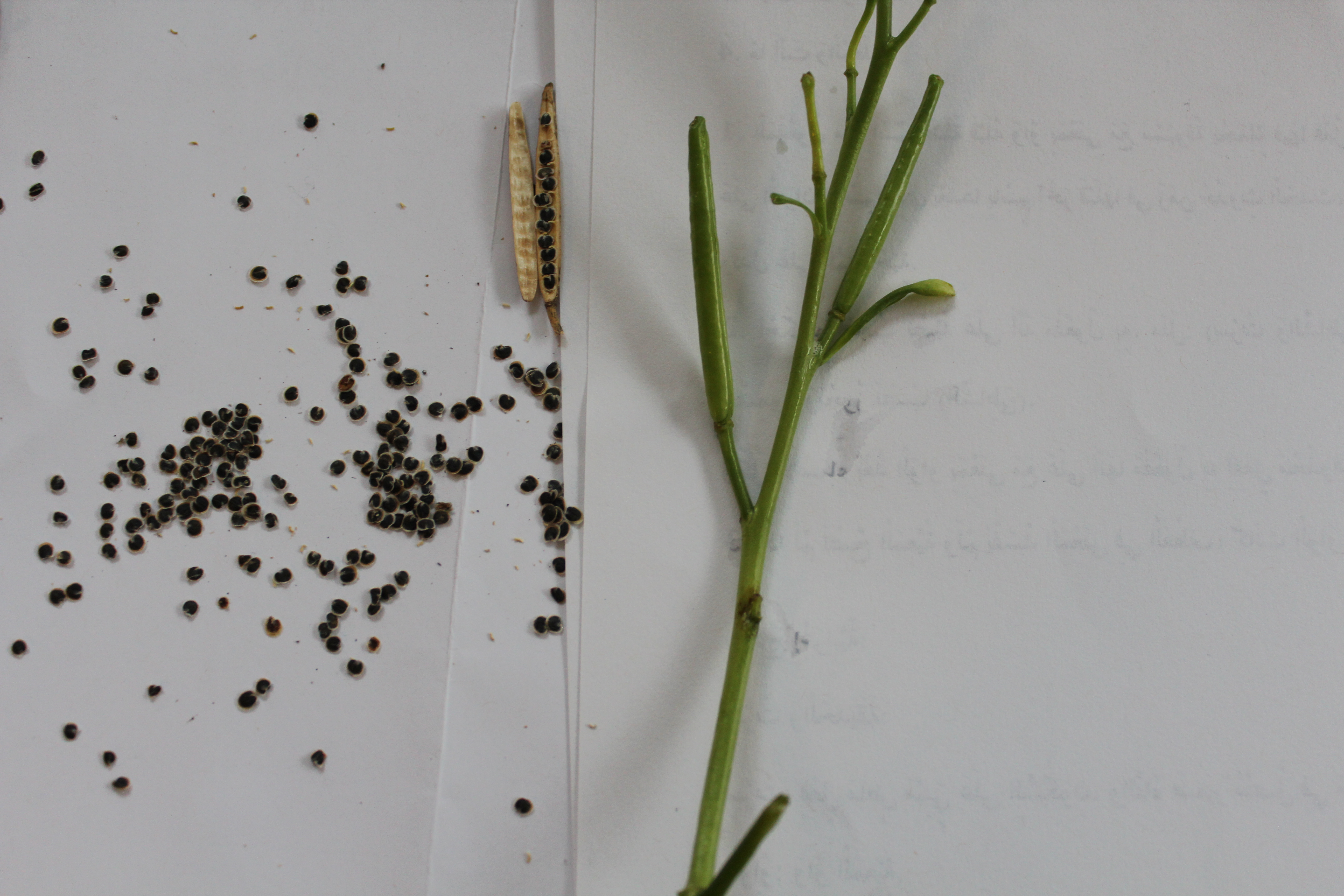 Siliques and seeds of Matthiola incana